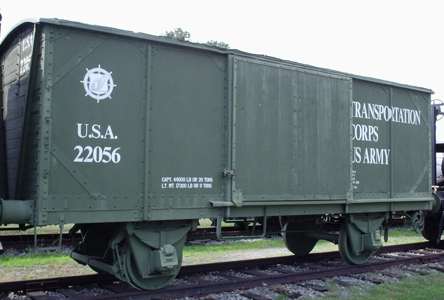 Photo by William J. Grimes of Forty-and-eights style boxcar @ the Fort Eustis Army Transportation Museum.